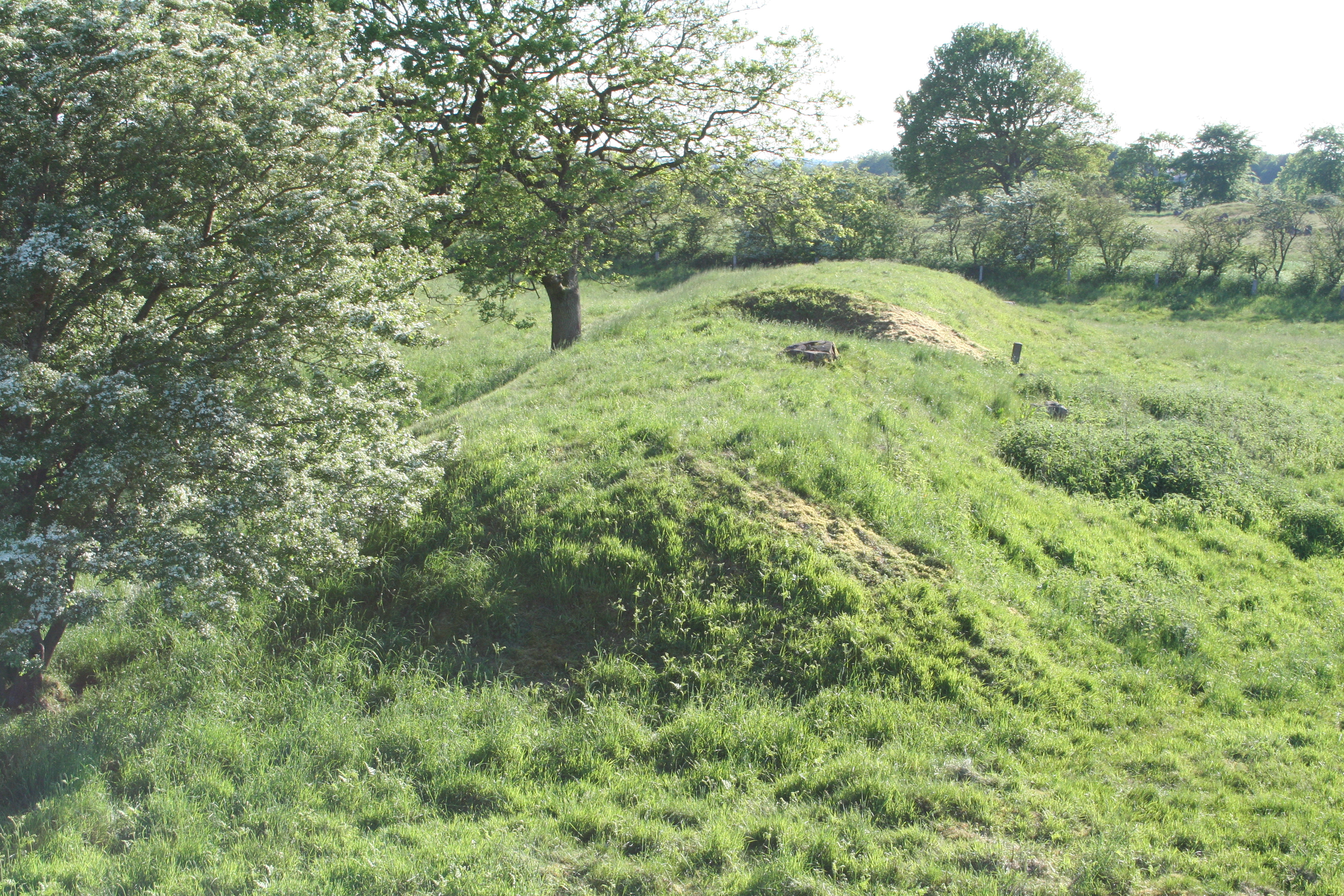 Vedsted Langdysse 3